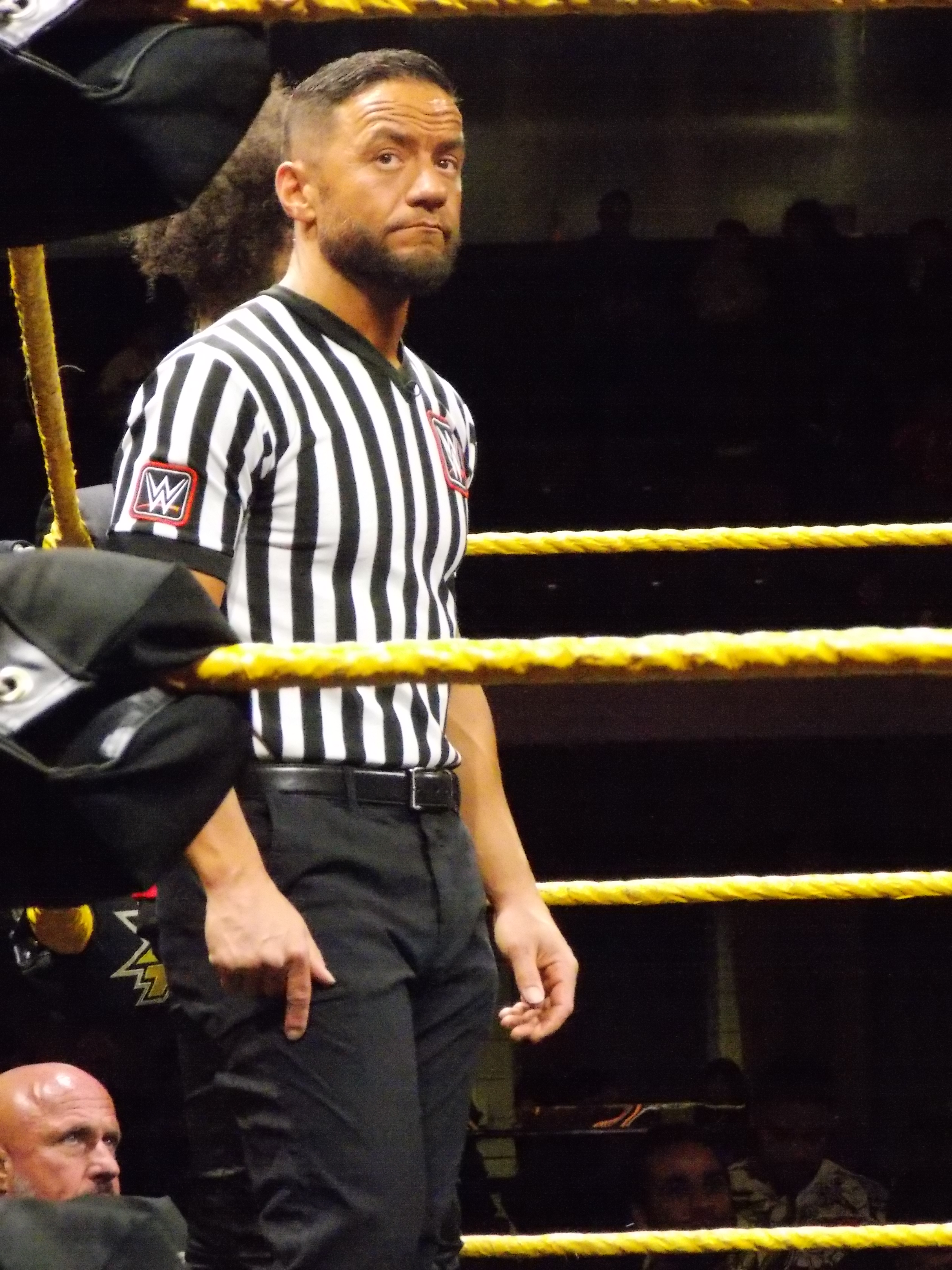 Drake Wuertz at an NXT Live Event in Omaha, Nebraska, USA on Thursday, April 25, 2019